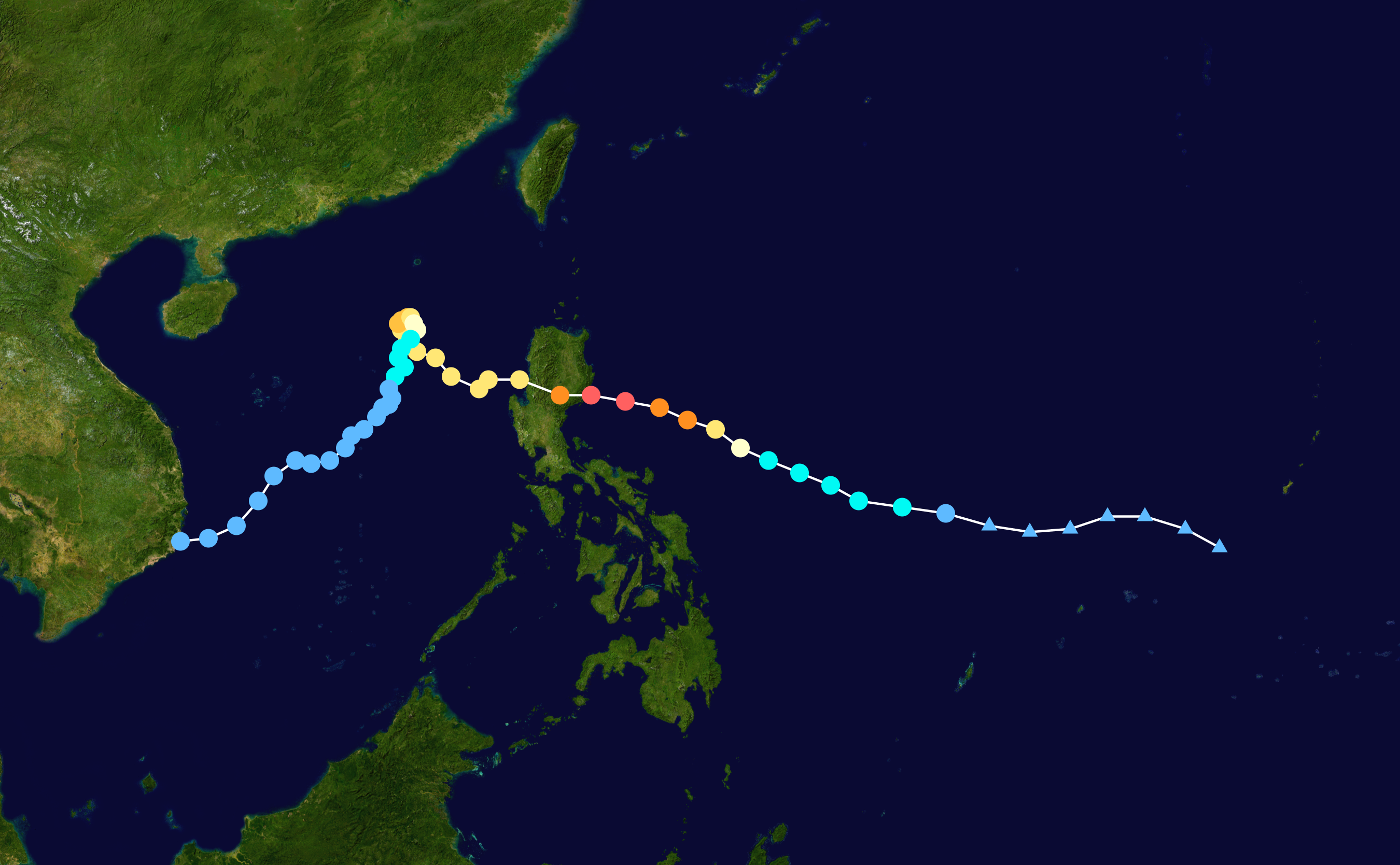 Typhoon Cimaron (2006) track. Uses the color scheme from the Saffir-Simpson Hurricane Scale.